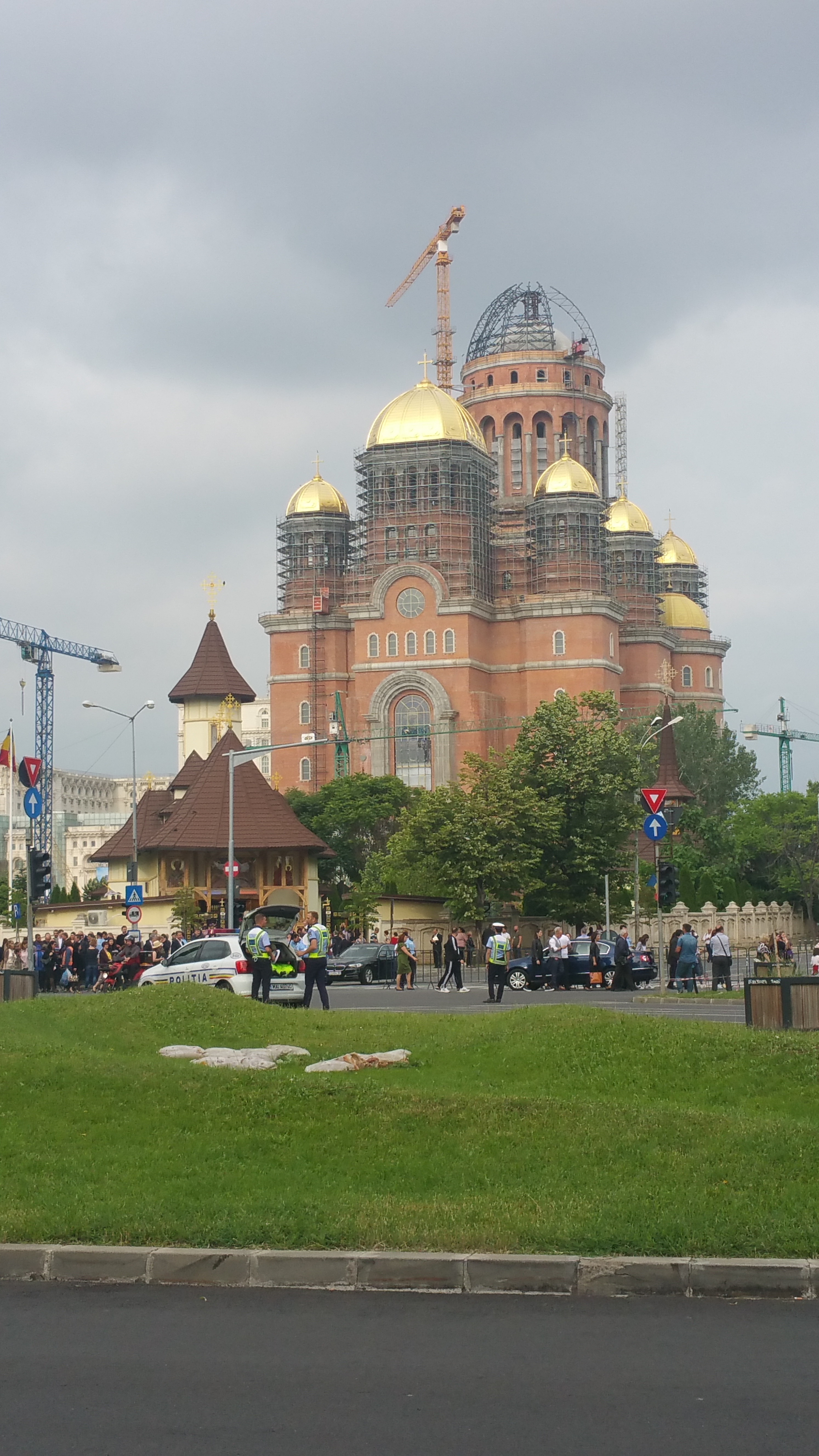 People's Salvation Cathedral - Bucharest (2019 May)